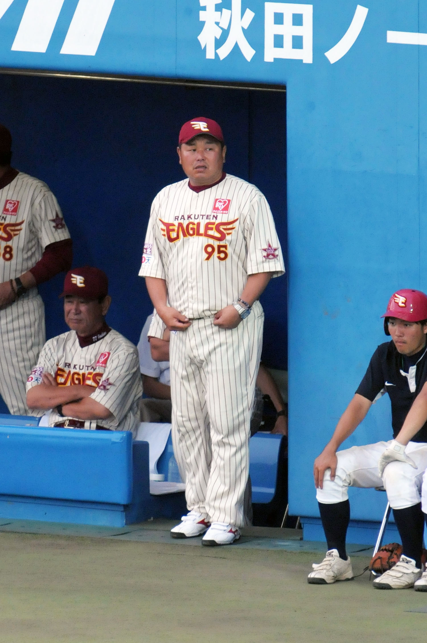 Hiromoto Okubo, coach of the Tohoku Rakuten Golden Eagles, at Akita Prefectural Baseball Stadium.